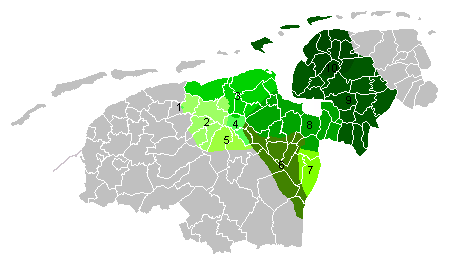 Groningan and Eastfrisian dialects